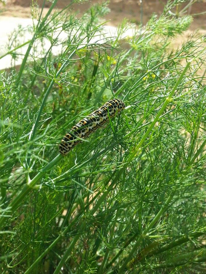 Silk worm